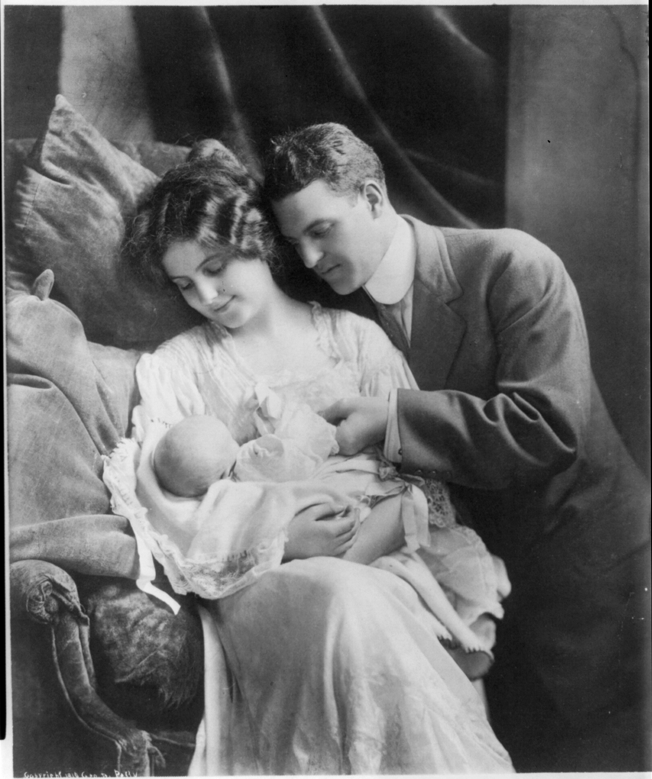 Young couple with baby.